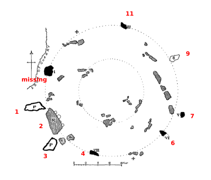 Tomnaverie stone circle, plan of 1905 by Frederick Coles. Legend: R is recumbent stone P are fallen "pillar" stones, Coles' name for flankers (outline indicates fallen position) A, B, C, D stones now known to be outer kerb stones of ring cairn I, III, V, VI, VIII standing stones (black indicates standing): 4 is a fallen stone (outline indicates fallen position) +, + two presumed missing stones Hatched fill for recumbent and for stones Coles thought might be an inner and outer kerb stones of ring cairn Red numbers are those given by Bradley (2005) Bradley, Richard; Phillips, Tim; Arrowsmith, Sharon; Ball, Chris (2005). The Moon and the Bonfire: an investigation of three stone circles in north-east Scotland. Society of Antiquaries of Scotland. ISBN 0903903334